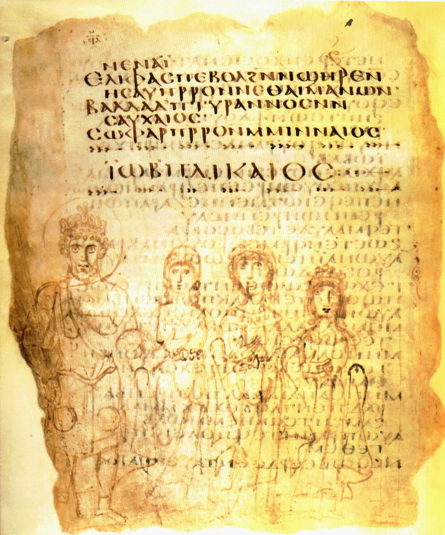 Folio 4v from ac Coptic Old Testament Fragment, showing Lot and his daughters. Scanned from Crinelli, Lorenzo. Treasures from Italy's Great Libraries. New York, The Vendome Press, 1997.